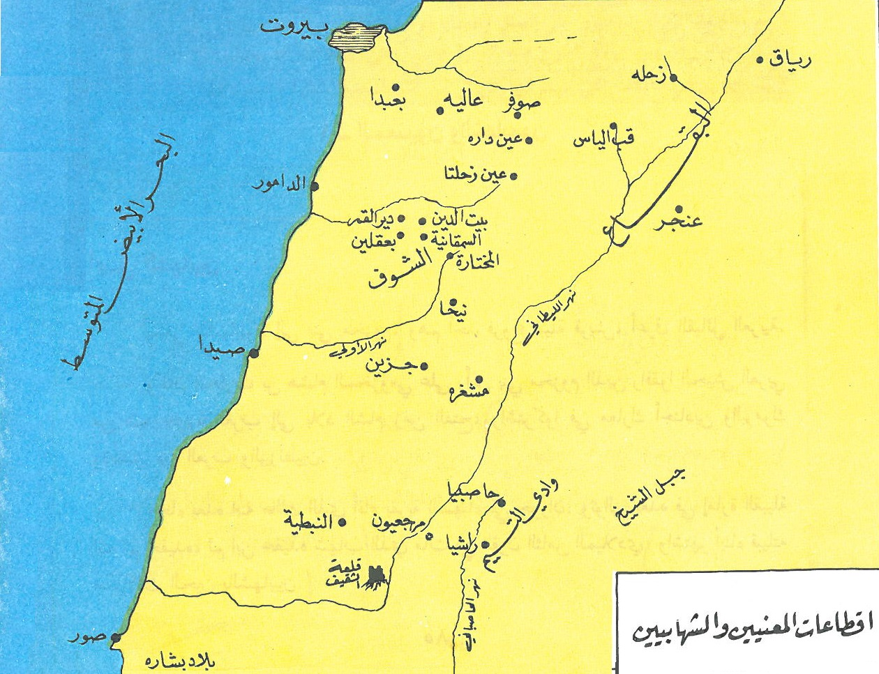 Ma'anids and Shihabs Iqta's in Mount Lebanon and the Bekaa.